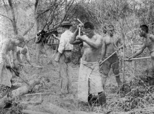 South Sea Islanders clearing land at Farnborough Yeppoon 1895